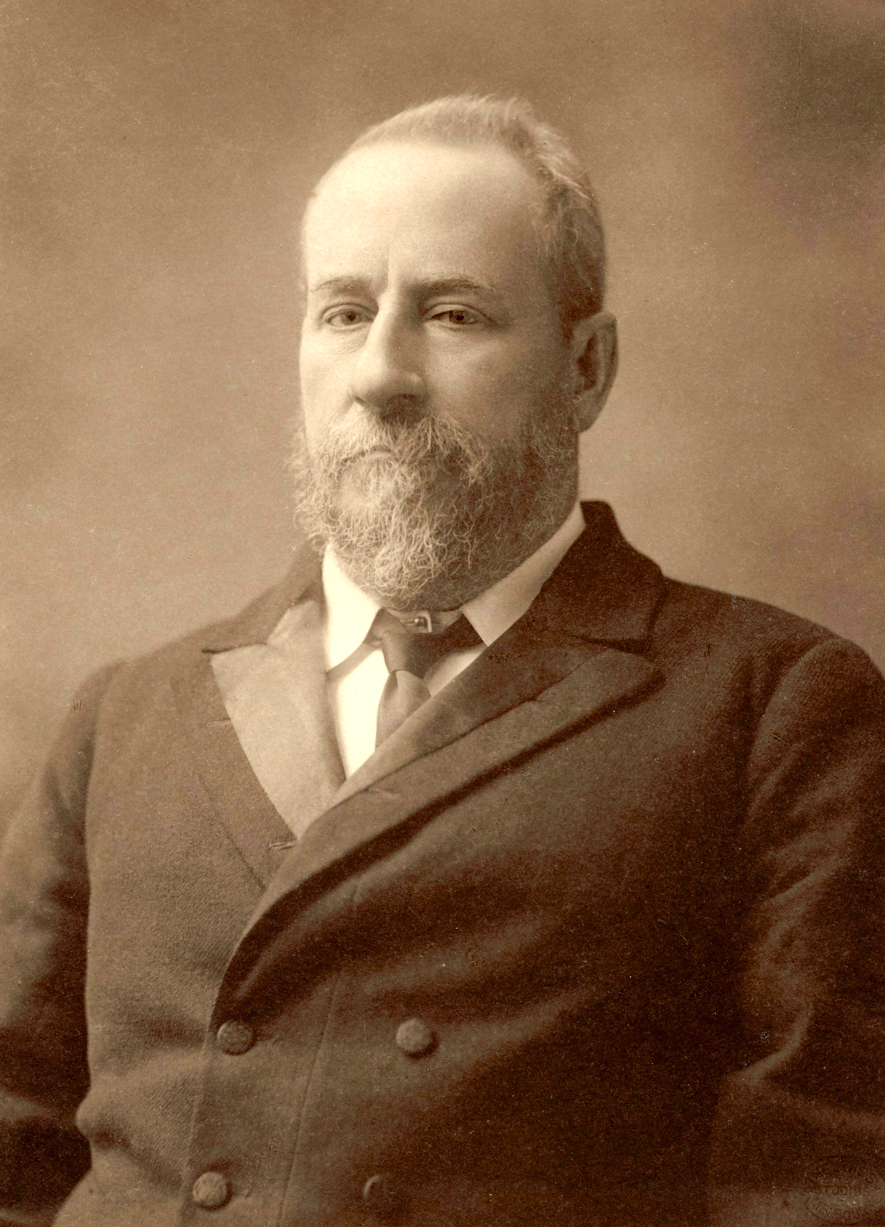 Charles Kingston, South Australian politician.